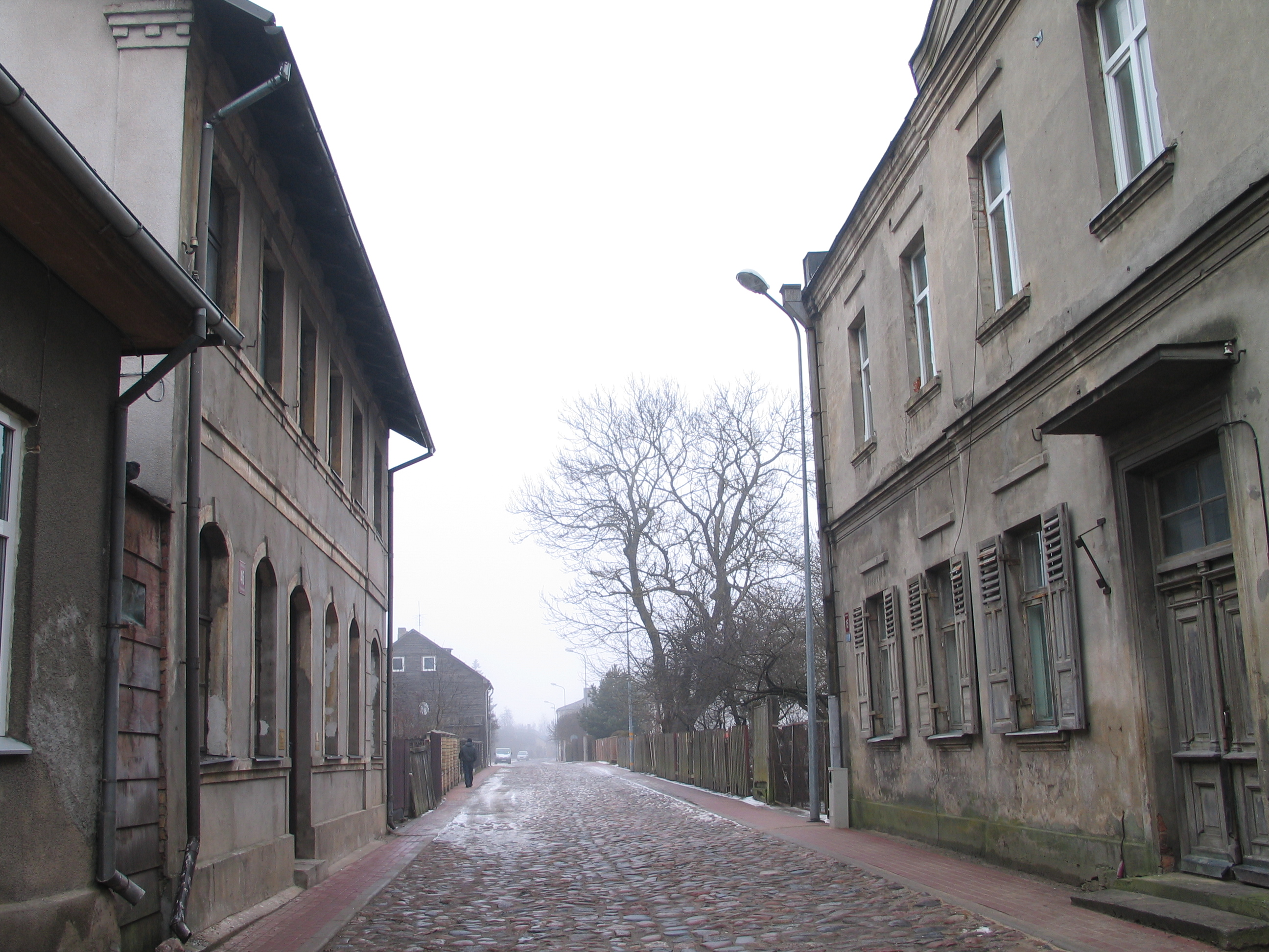 Ausekļa Street in Jelgava